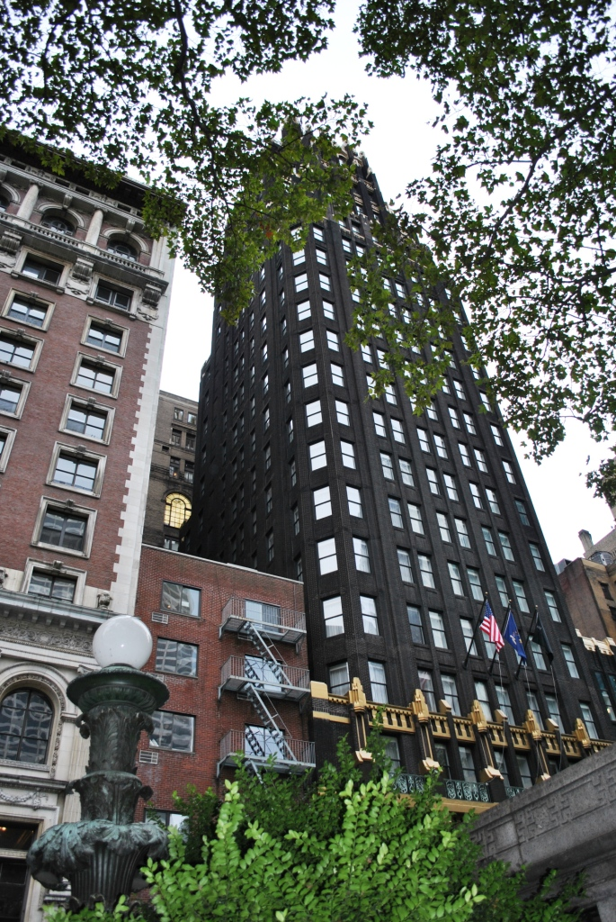 American Radiator Building